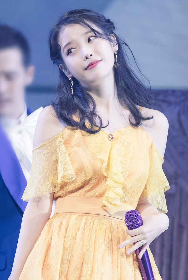 IU at 'dlwlrma' concert in Jeju on January 5, 2019.